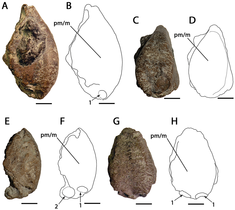 Ornithocheirus simus. A–D referred specimen CAMSM 54429 (Albian, Cambridge Greensand), anterior part of the rostrum A right lateral view B respective line drawing C anterior view D respective line drawing E–H referred specimen CAMSM 54677 (Albian, Cambridge Greensand), anterior part of the rostrum E right lateral view F respective line drawing G anterior view H respective line drawing. Abbreviations: m – maxillae, pm – premaxillae. Arrows and numbers indicate alveoli or teeth and their respective position. Scale bar = 10 mm.